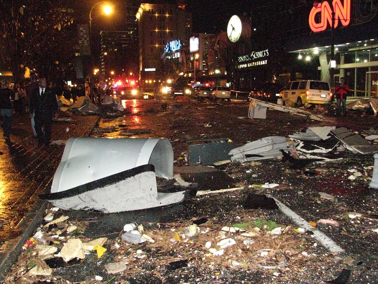 Aftermath of a tornado in downtown Atlanta, Georgia, United States.